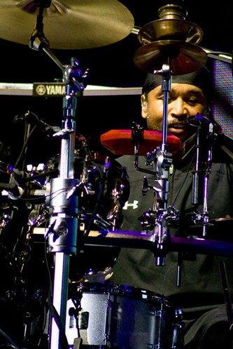 Dave Matthews Band (3/10/2008) - Pepsi Music Festival, Club Ciudad de Buenos Aires - Buenos Aires (Argentina)